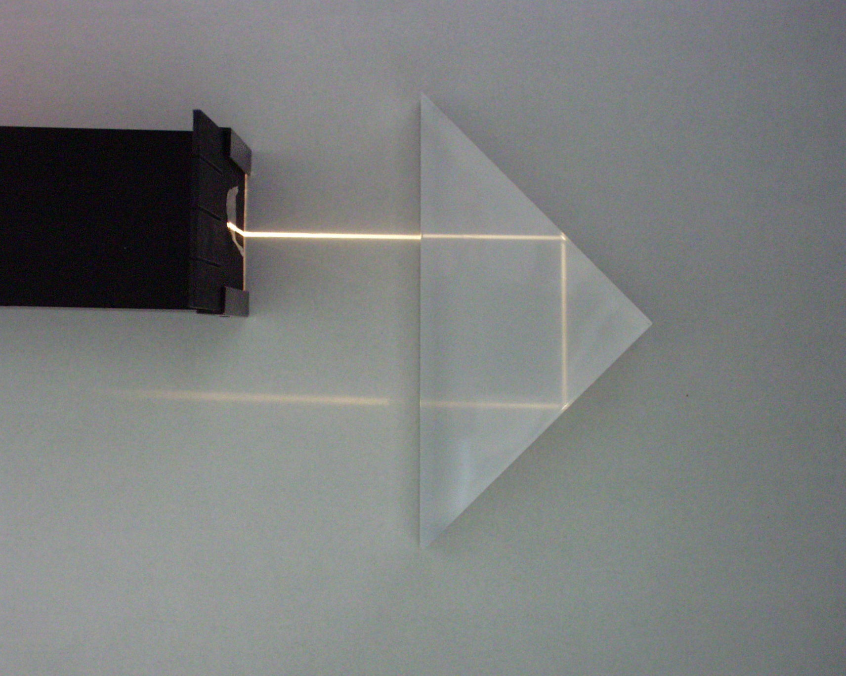 Retroreflection in prism.